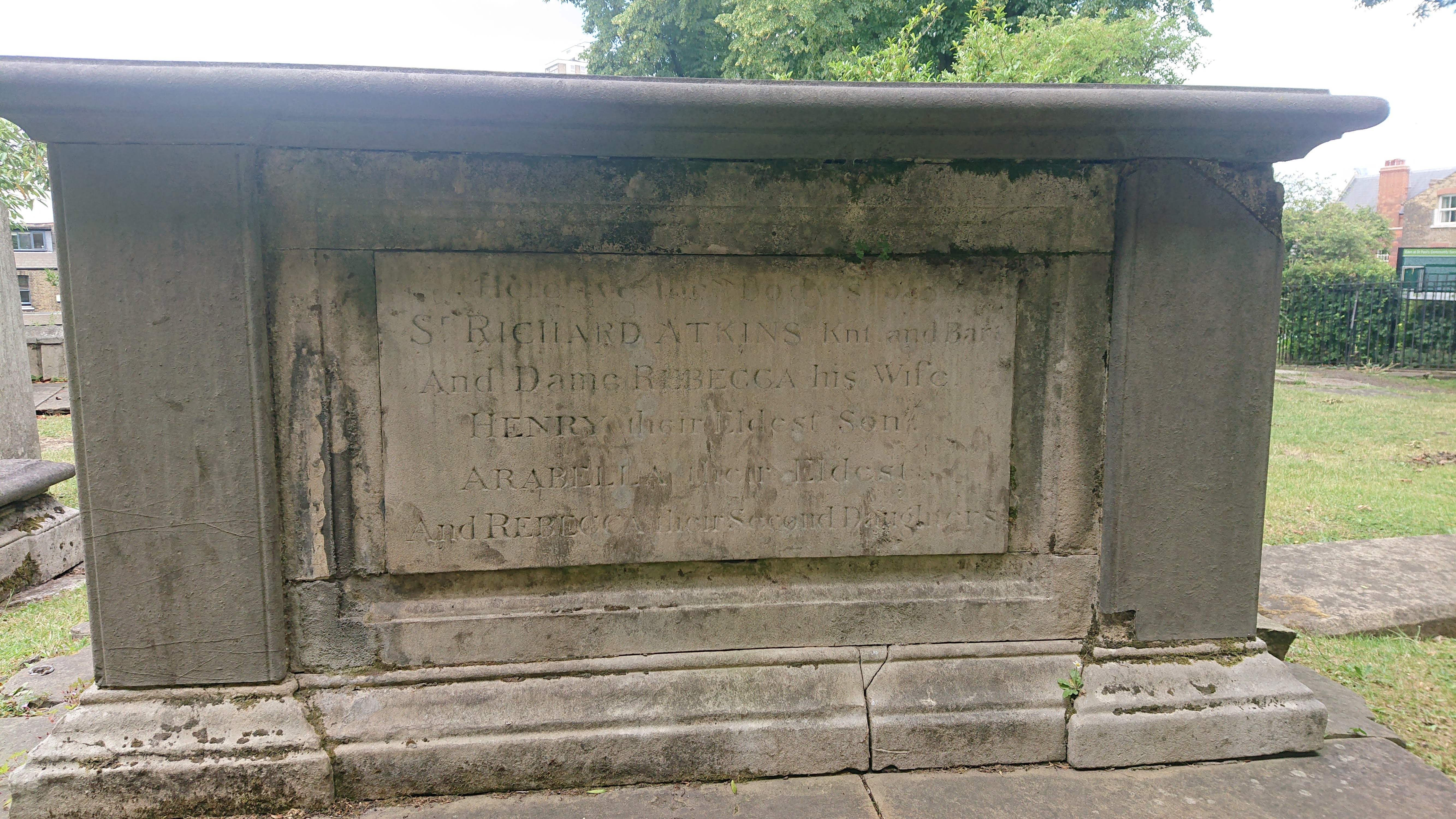 Sir Richard Atkins, Dame Rebecca his wife